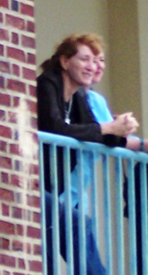 Patti Scialfa, Convention Hall, Asbury Park. Taken by me, 29 Sept 2004. Not great, but better than the current nothing.